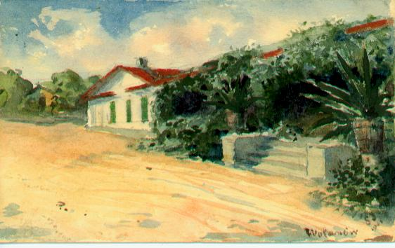 Scan of original aquarel painting in the post-card format by Jaxa-Malachowski